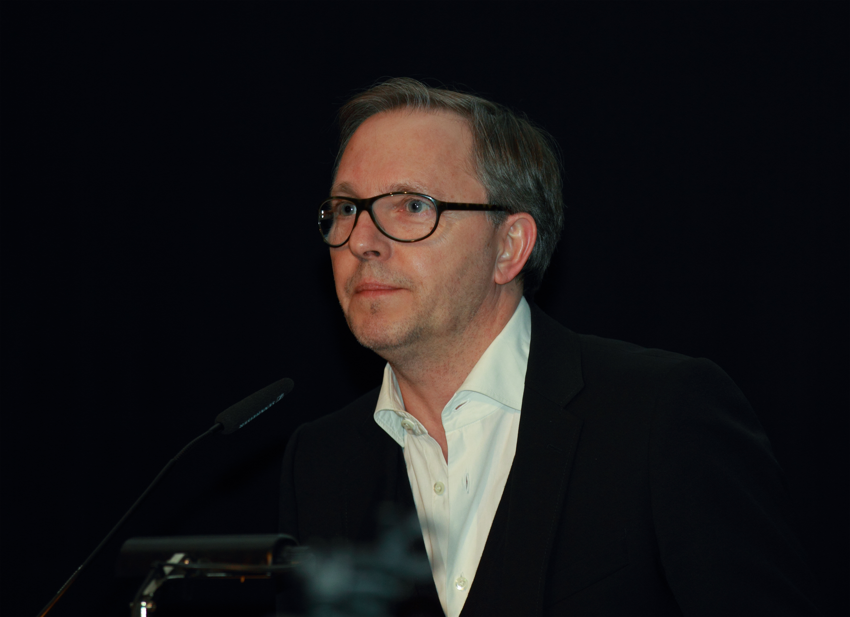 German comedian Olli Dittrich, reading at Lit.Cologne festival 2012